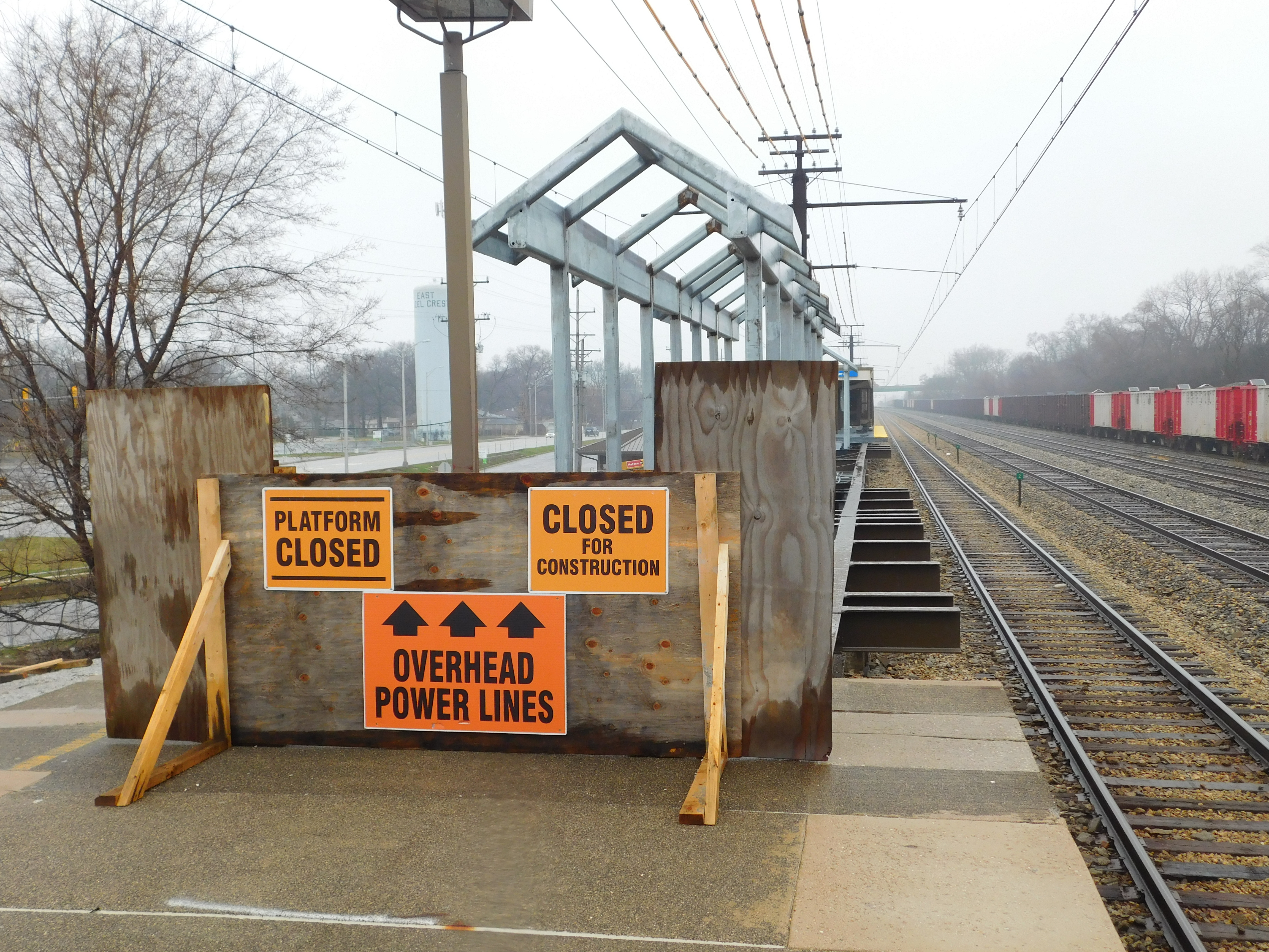 The new platform construction at the Calumet station for Metra in March 2017.